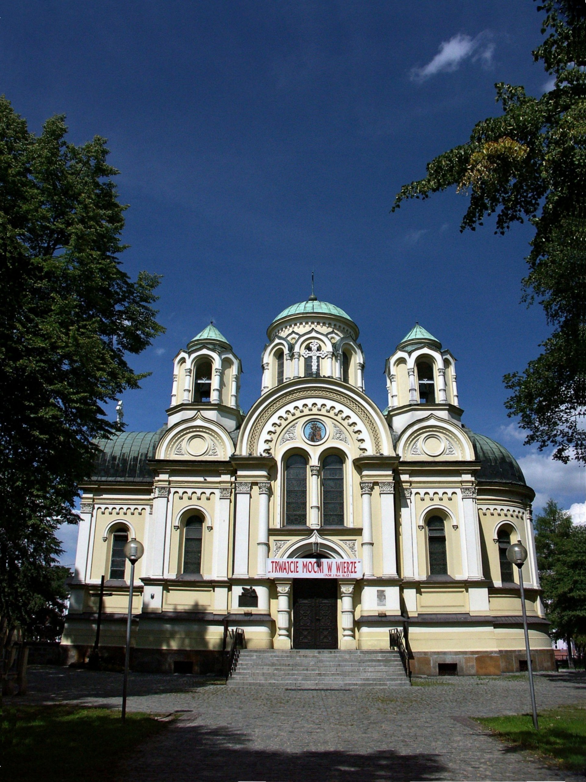 Saint James church in Częstochowa